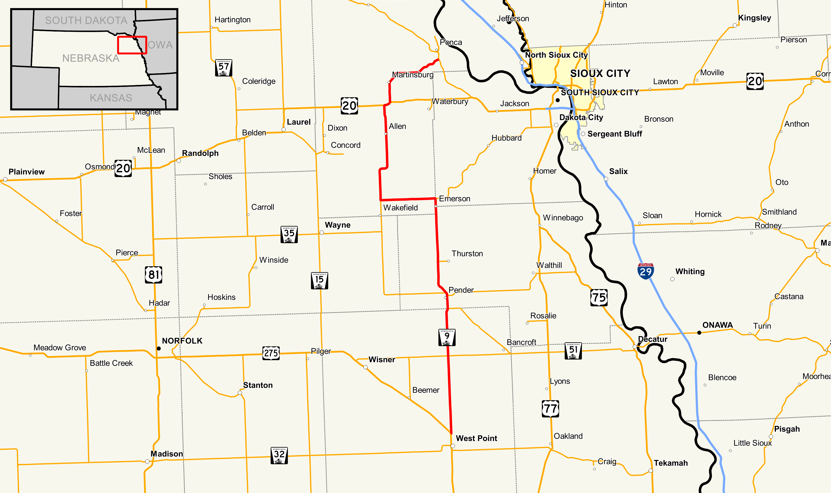 Map of Nebraska Highway 9 Data Sources: Nebraska Highways - - Dec 2016 Nebraska County Boundaries - - Dec 2016 Nebraska City Boundaries - - Dec 2016 This PNG graphic was created with QGIS